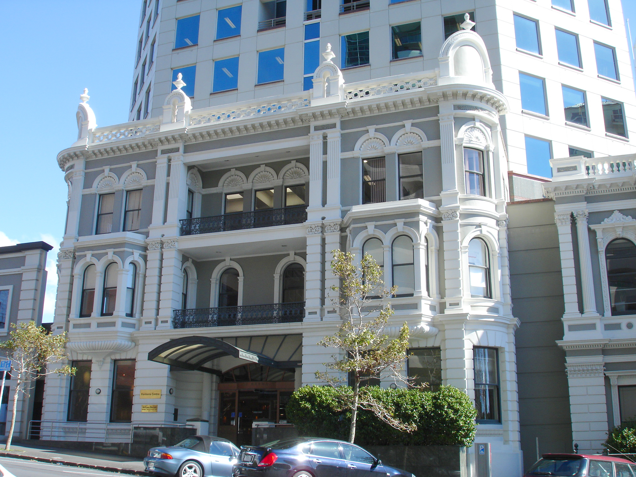 The Grand Hotel 9 Princes St Auckland (only front facade remains as front for the Fonterra Centre, an example of facadism).